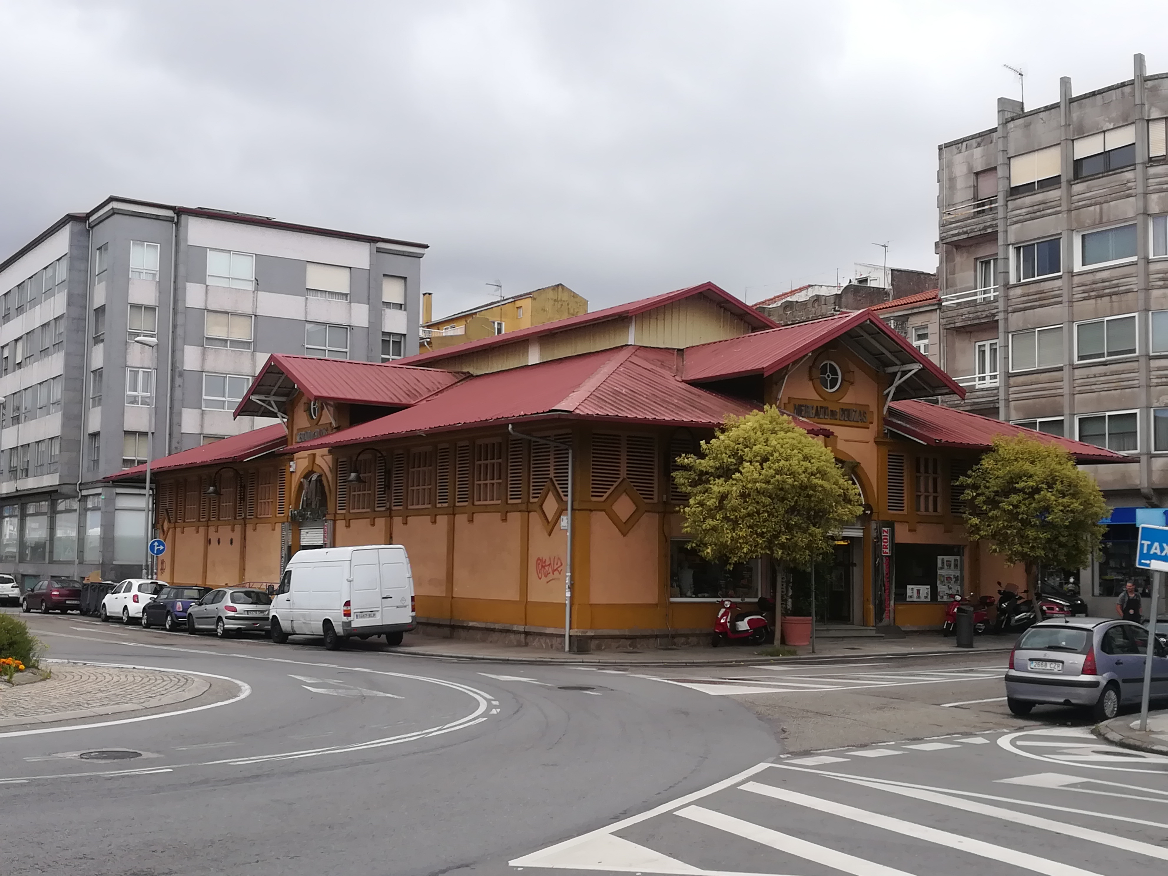 Bouzas municipal food court in Vigo (Spain).